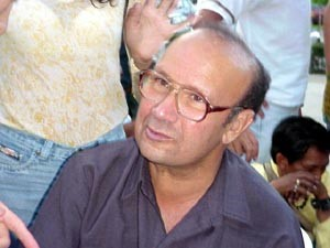 Egyptian professor